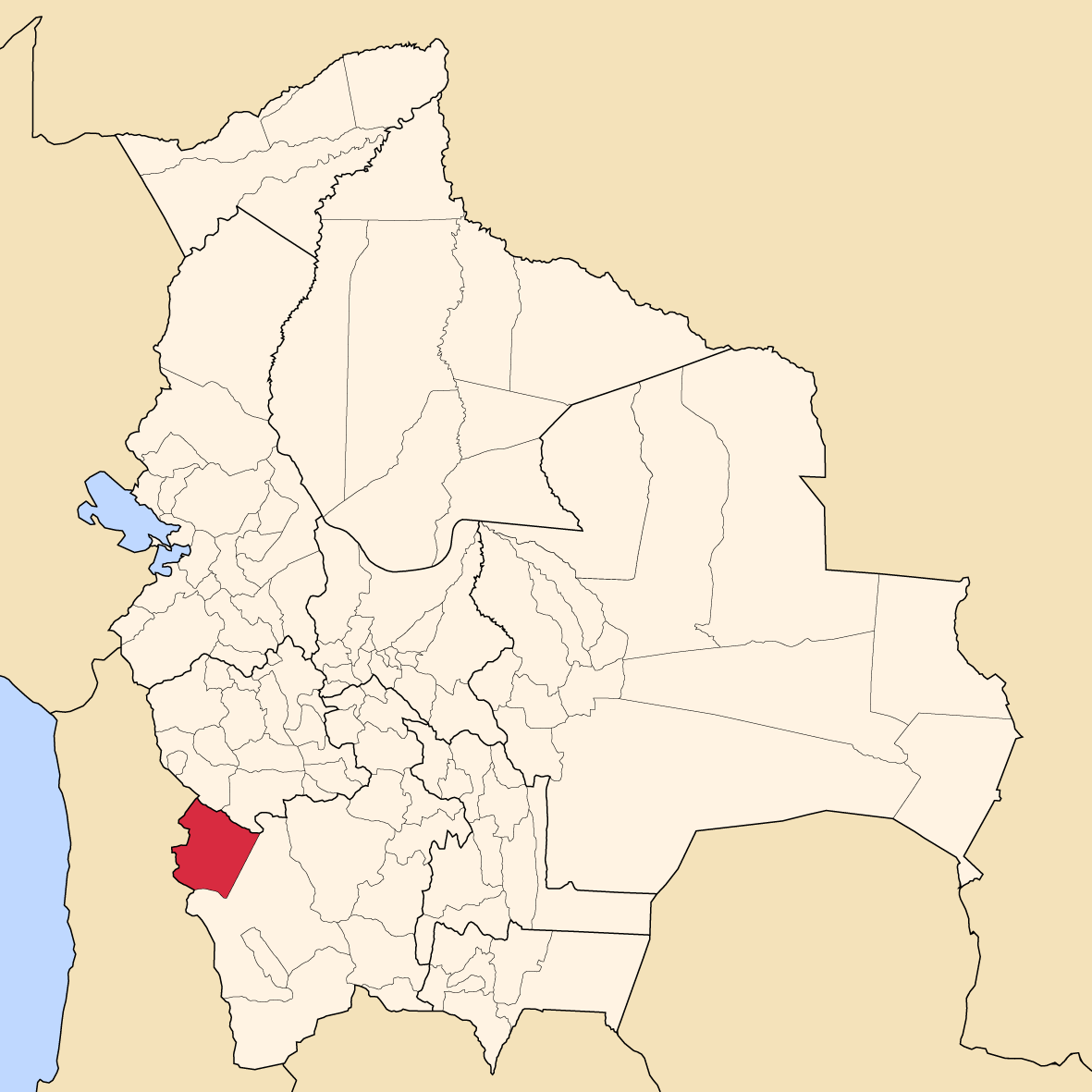 Map of Bolivia showing Daniel Campos province, Potosí